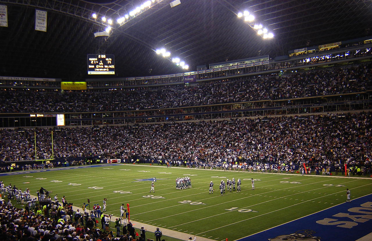 Texas Stadium